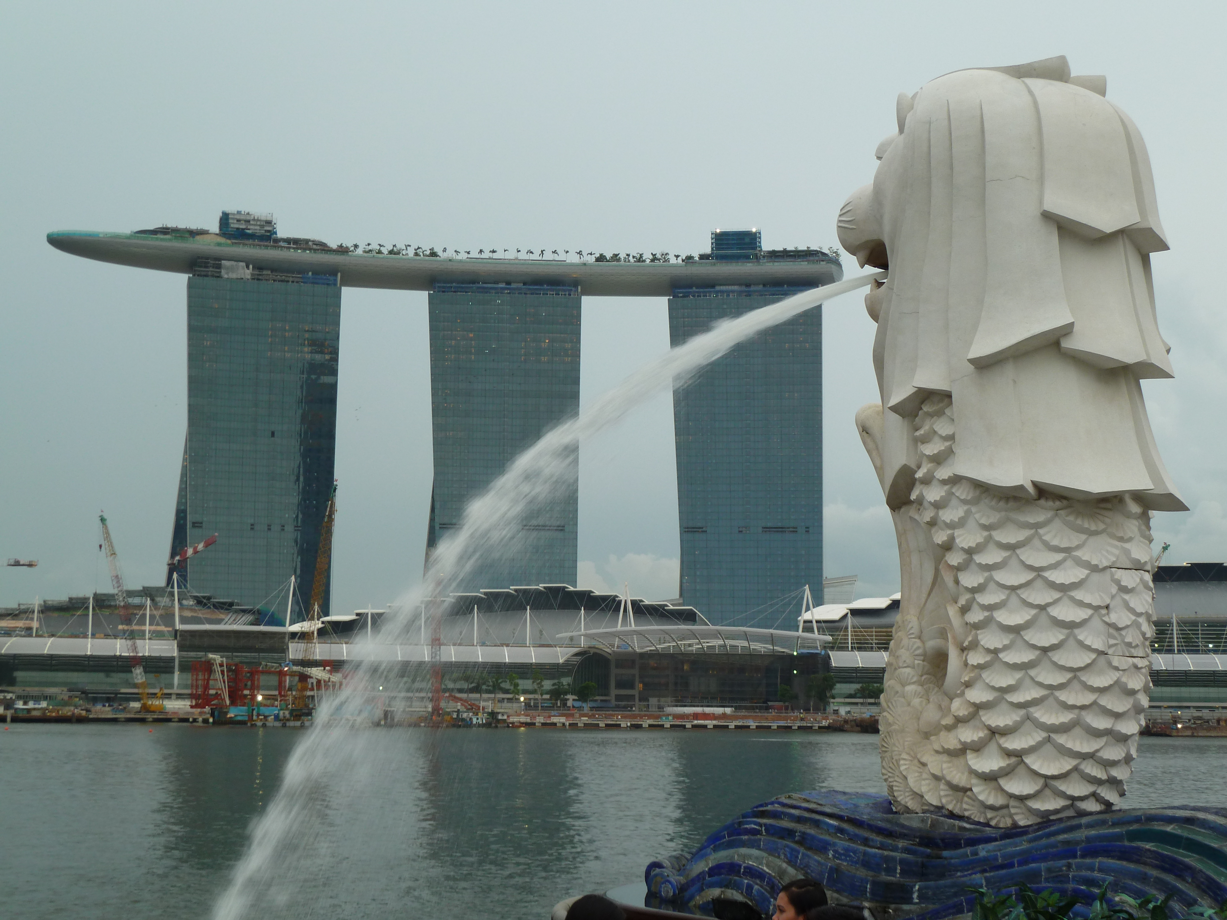 The Merlion with Marina Bay Sands in the distance.